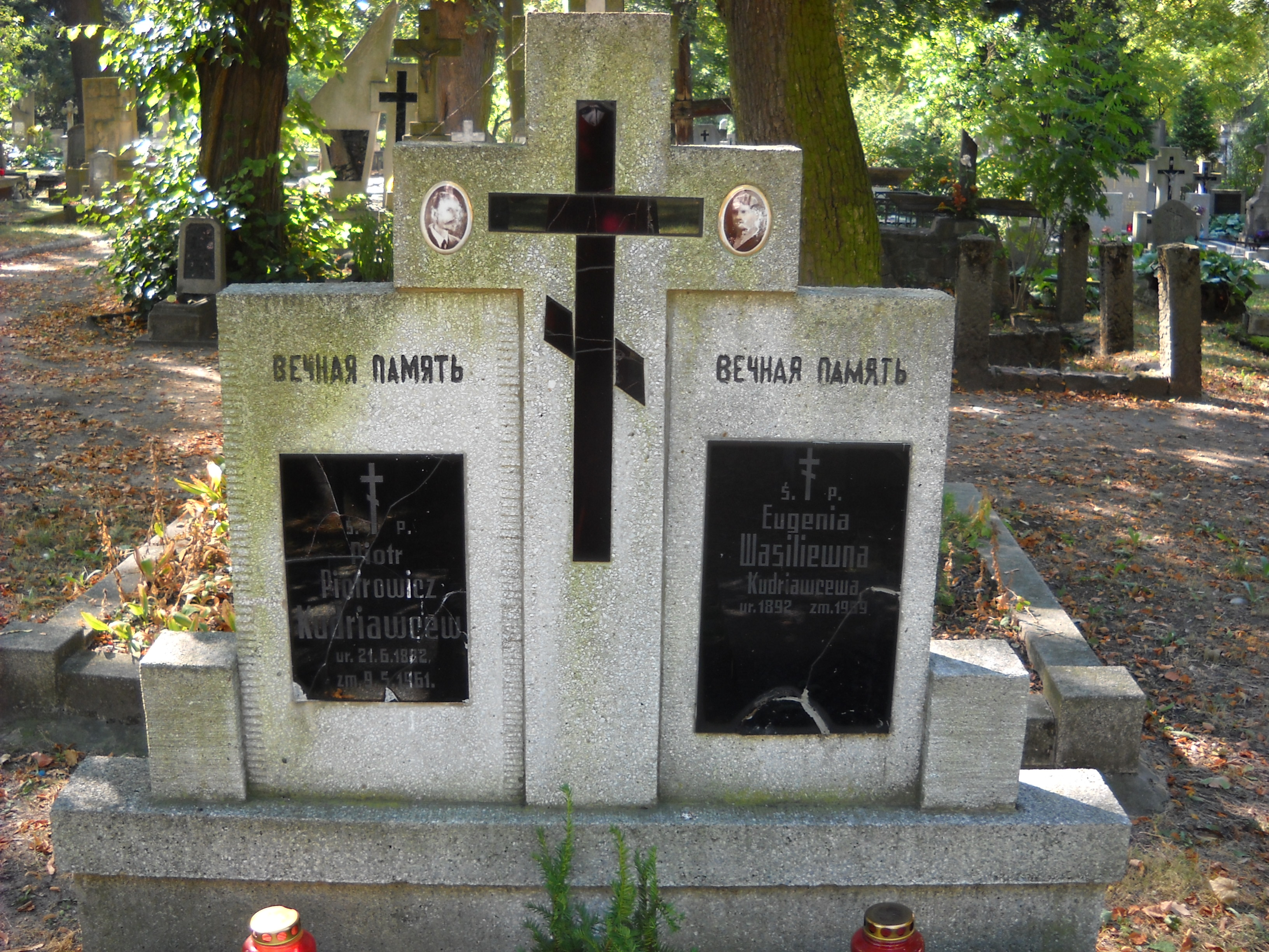 Grave of Pietr Kudryavtseff, an activist of Russian minority in Poland in the interwar period, and his wife. Military cemetery, Toruń.